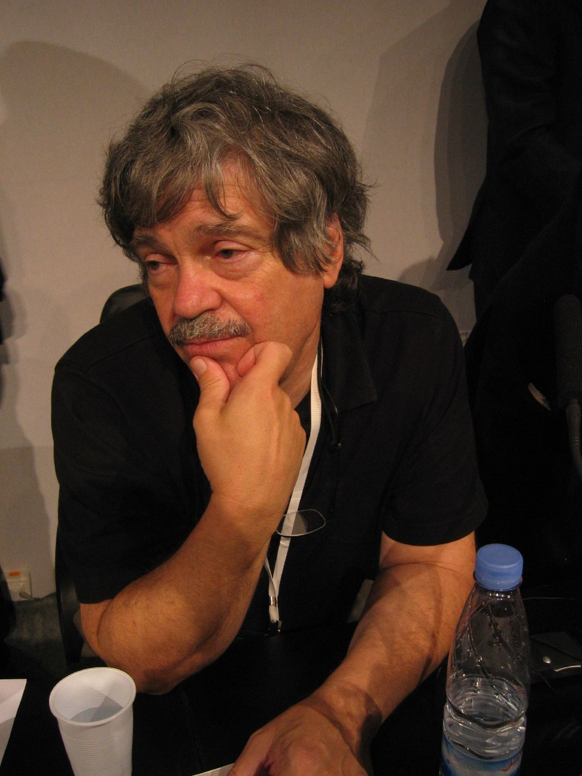 Alan Kay during the presentation of the $100 Laptop.